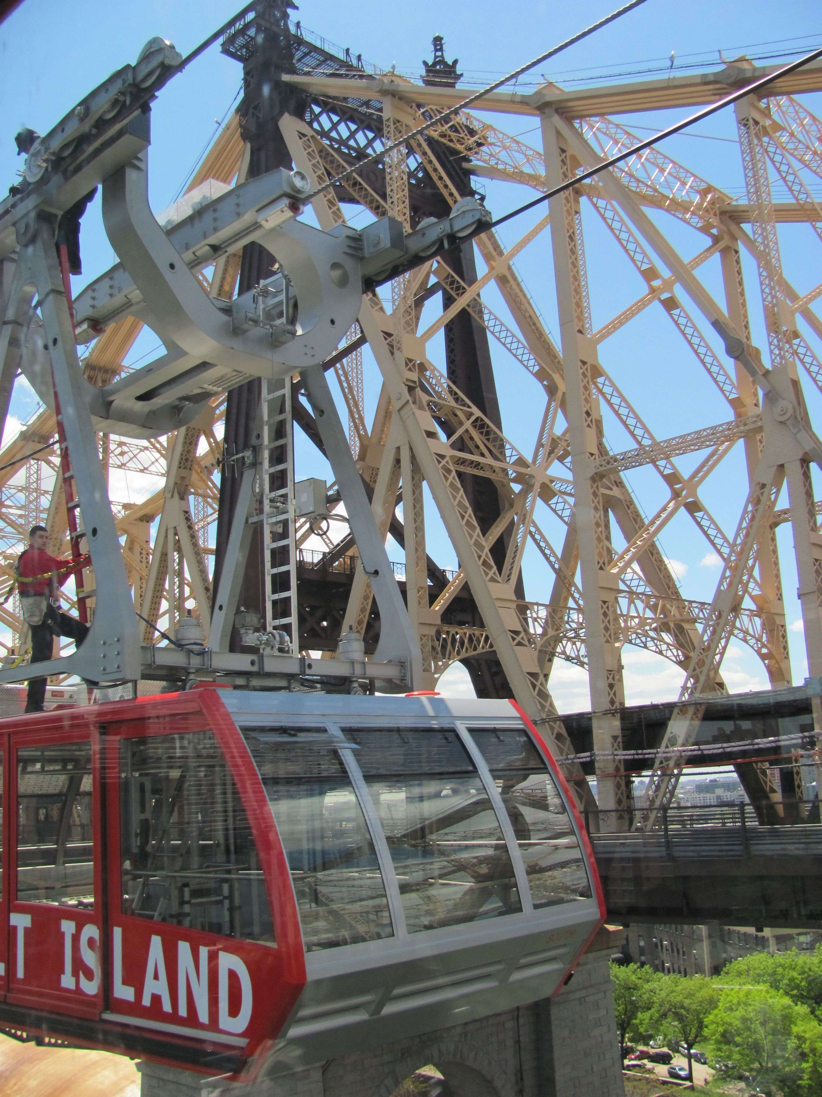 Roosevelt Island Tramway